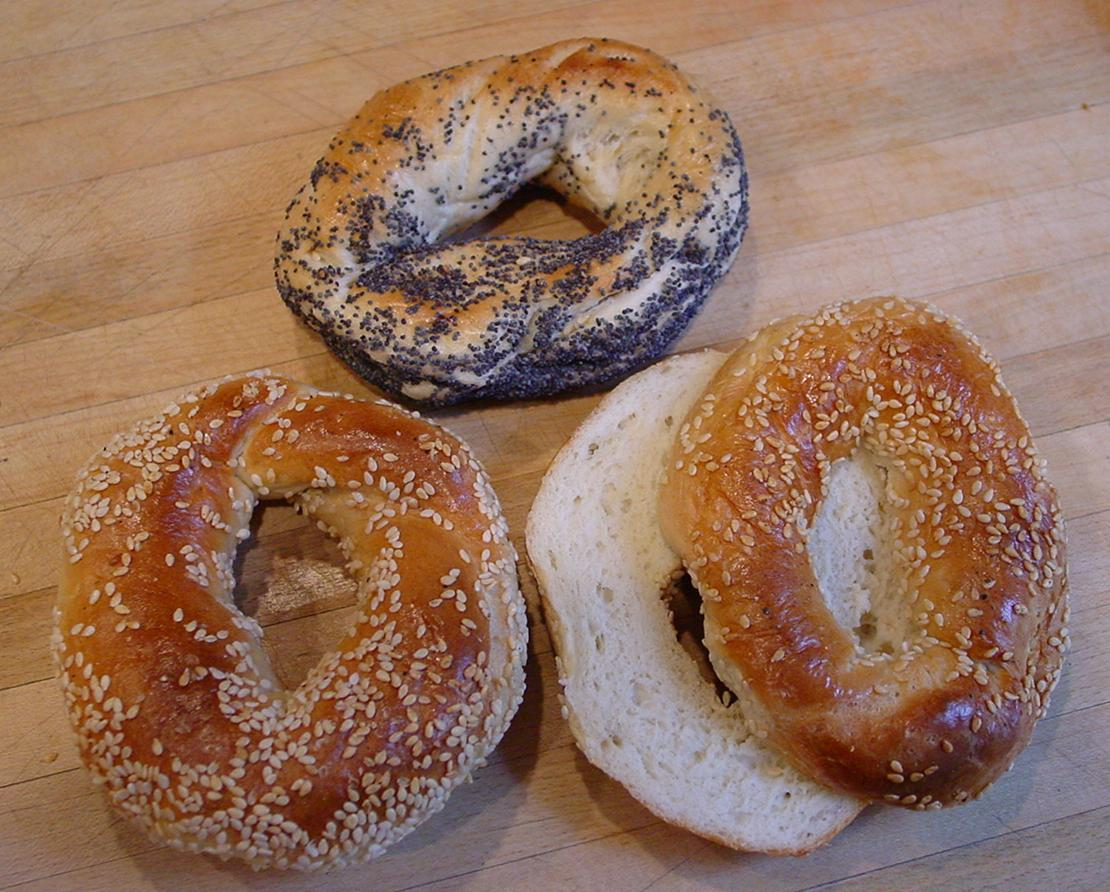 Poppy (dark) and sesame (light) seed Montreal-style bagels from R.E.A.L. Bagels. Photo by Gary Perlman, 2006-01-23.